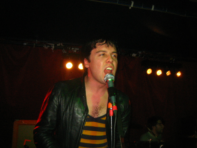 Ryan Jarman of The Cribs